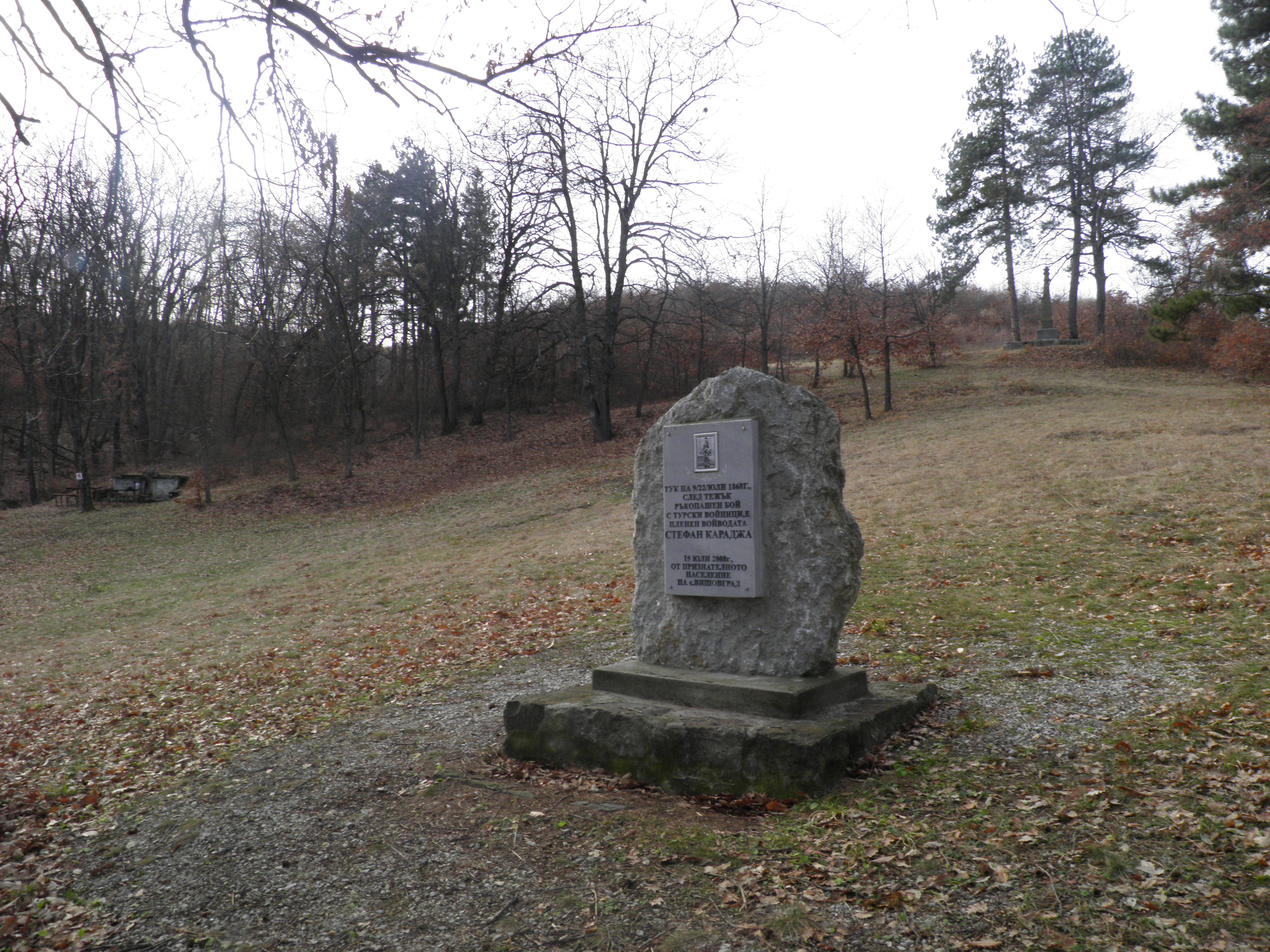 Place where were The fourth battle of the army of Hadzhi Dimitar and Stefan Karadzha in 1876